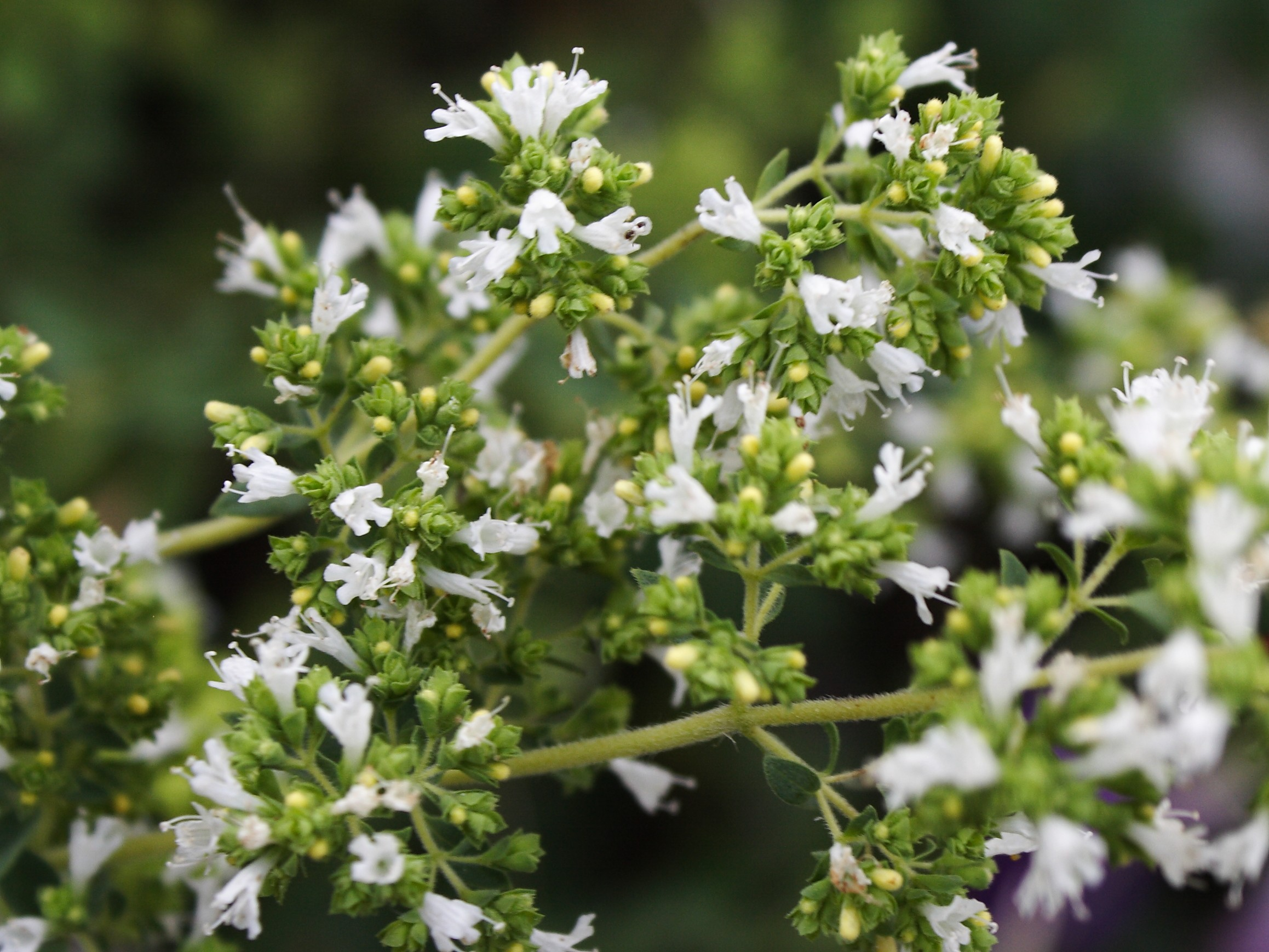 Oregano